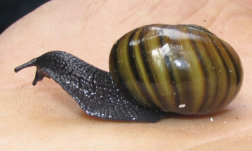 Powelliphanta augusta, previously known as Powelliphanta "Augustus" photographed in Happy Valley, New Zealand.